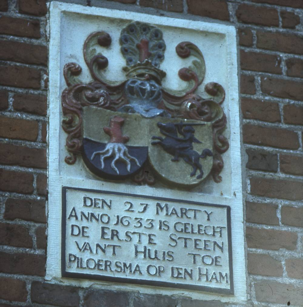 Arms de Mepsche